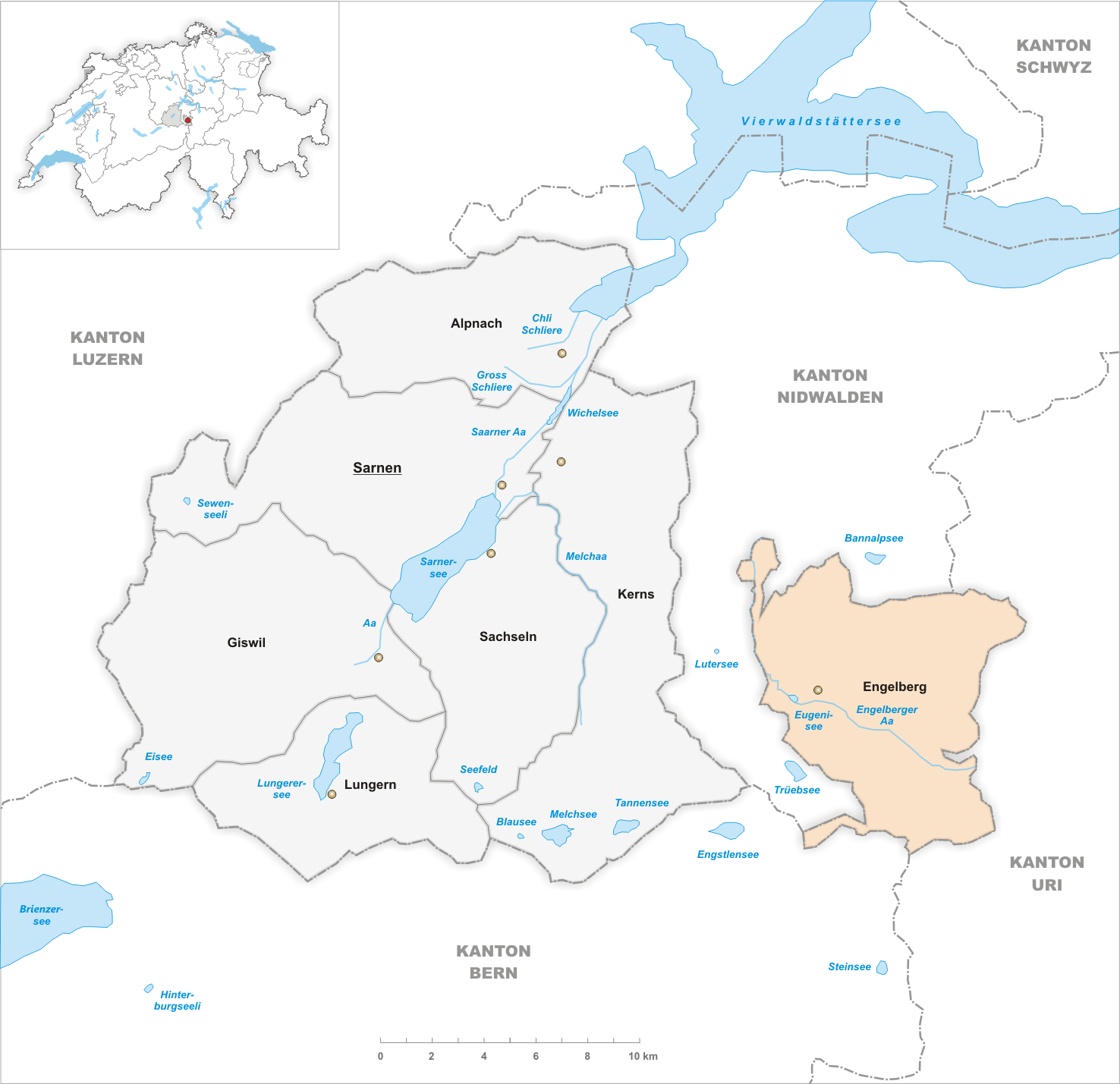 Municipality Engelberg